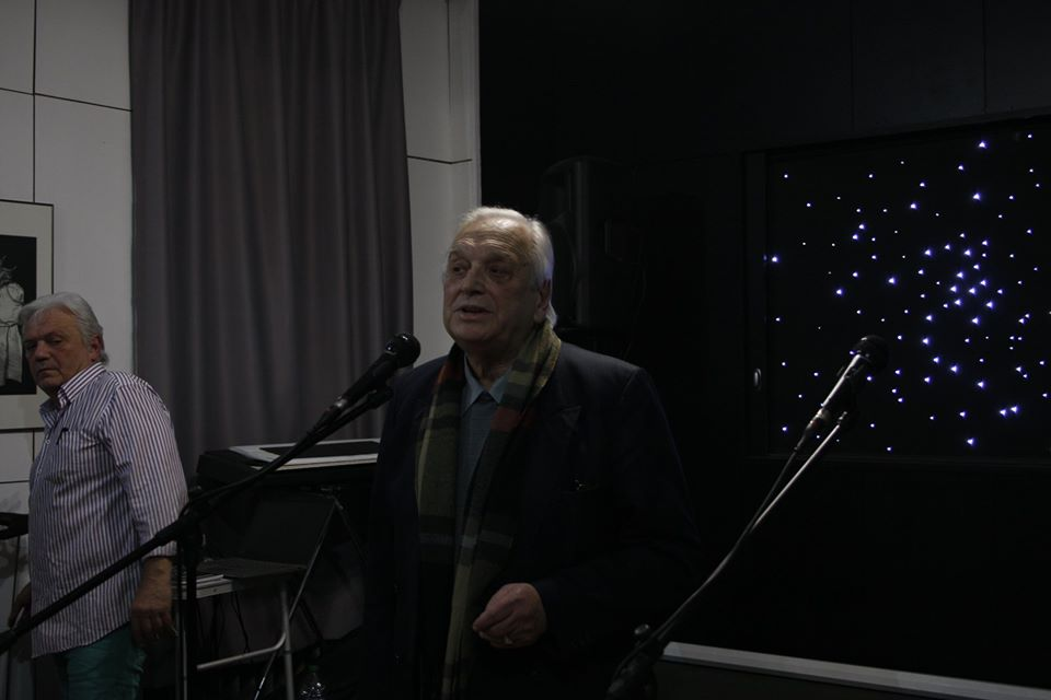 Bulgarian poet Georgi Konstantinov in 2020